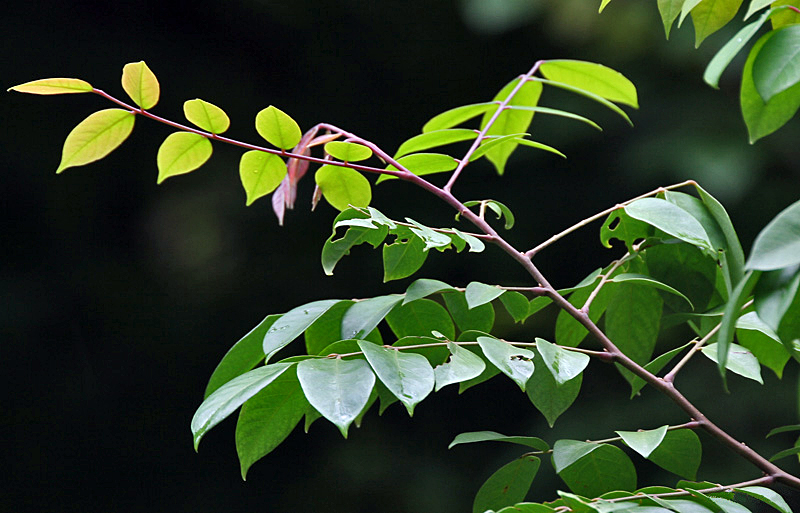 Kamrakh Averrhoa carambola in Kolkata, West Bengal, India.